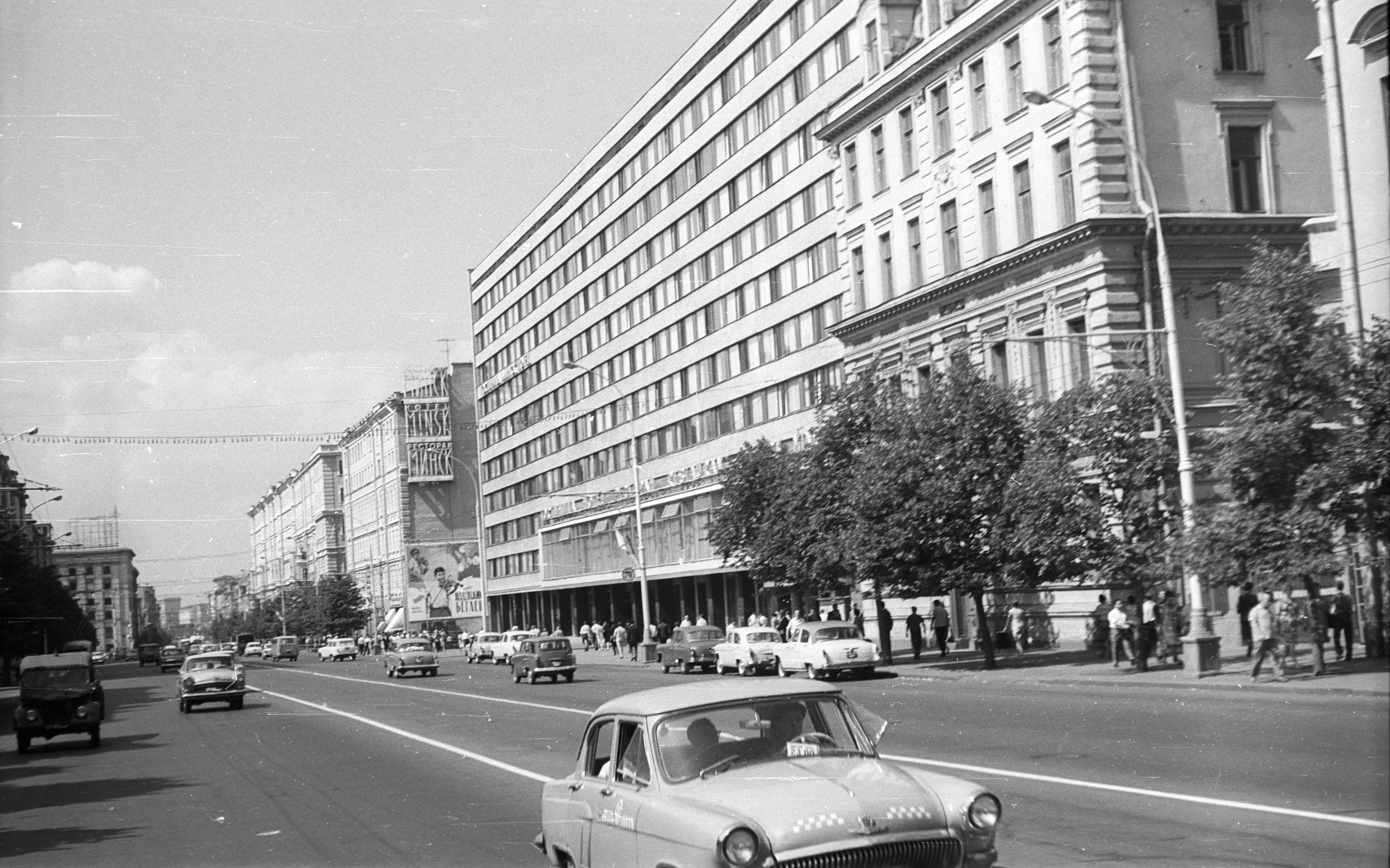 Hotel Minsk on former Gorkogo (now Tverskaya) Street in Moscow, Built in 1964, demolished in 2006 Location: Russia, Moscow Tags: street view, traffic, taxicab, Soviet Union Title: Tverszkaja utca.